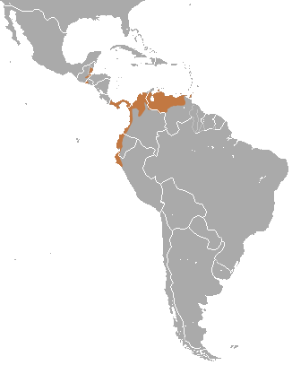 Robinson's Mouse Opossum (Marmosa robinsoni) range